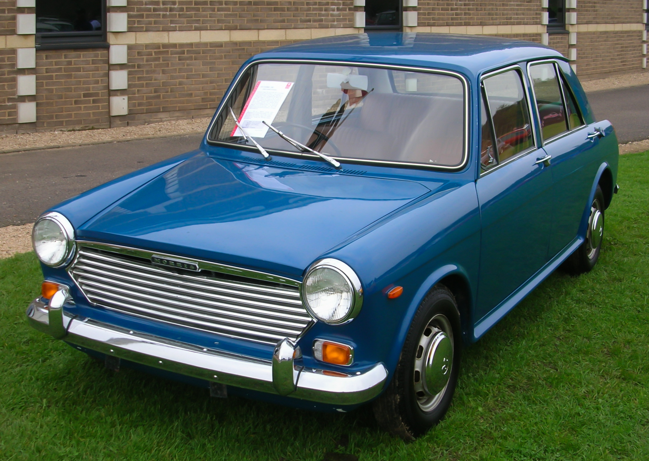 A 1974 Morris 1300. Photographed at the Alec Issigonis centenary rally at the Heritage Motor Centre, Gaydon, UK.